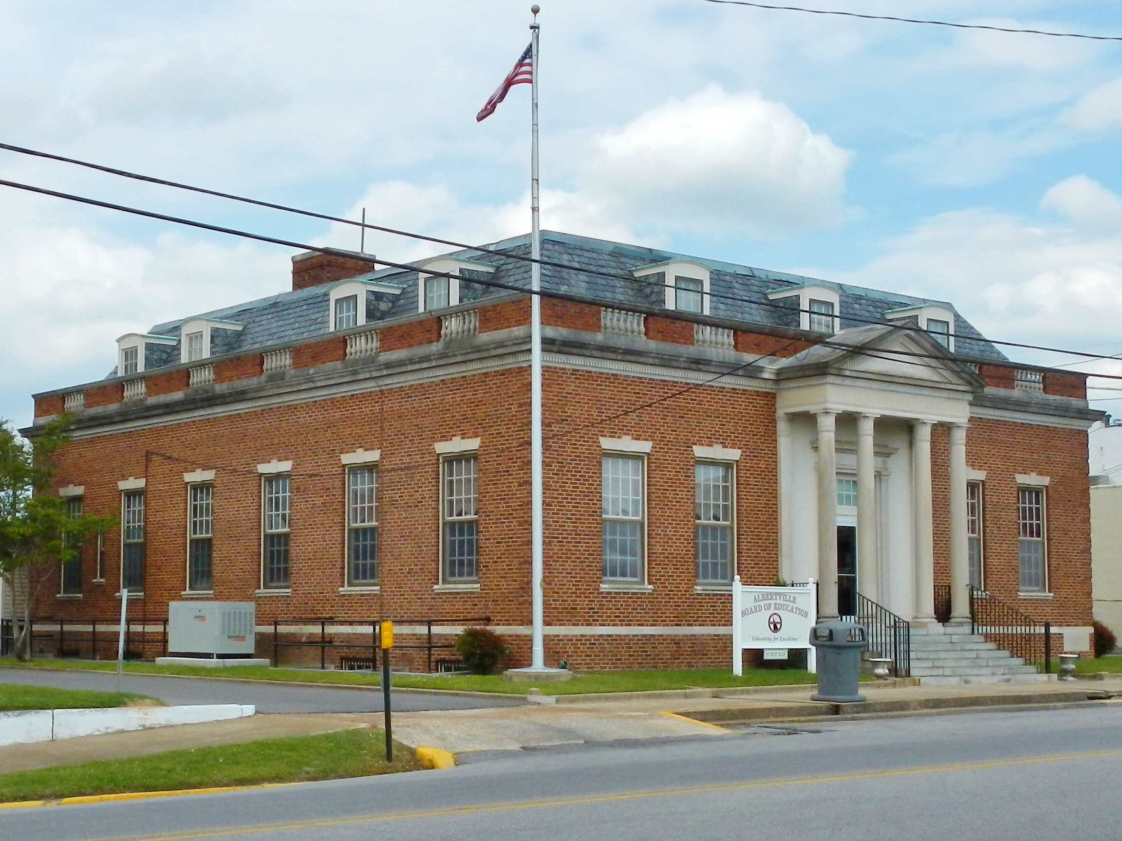 This is a photo of the United States Post Office in Albertville, Alabama. The building currently serves as the Albertville Board of Education.